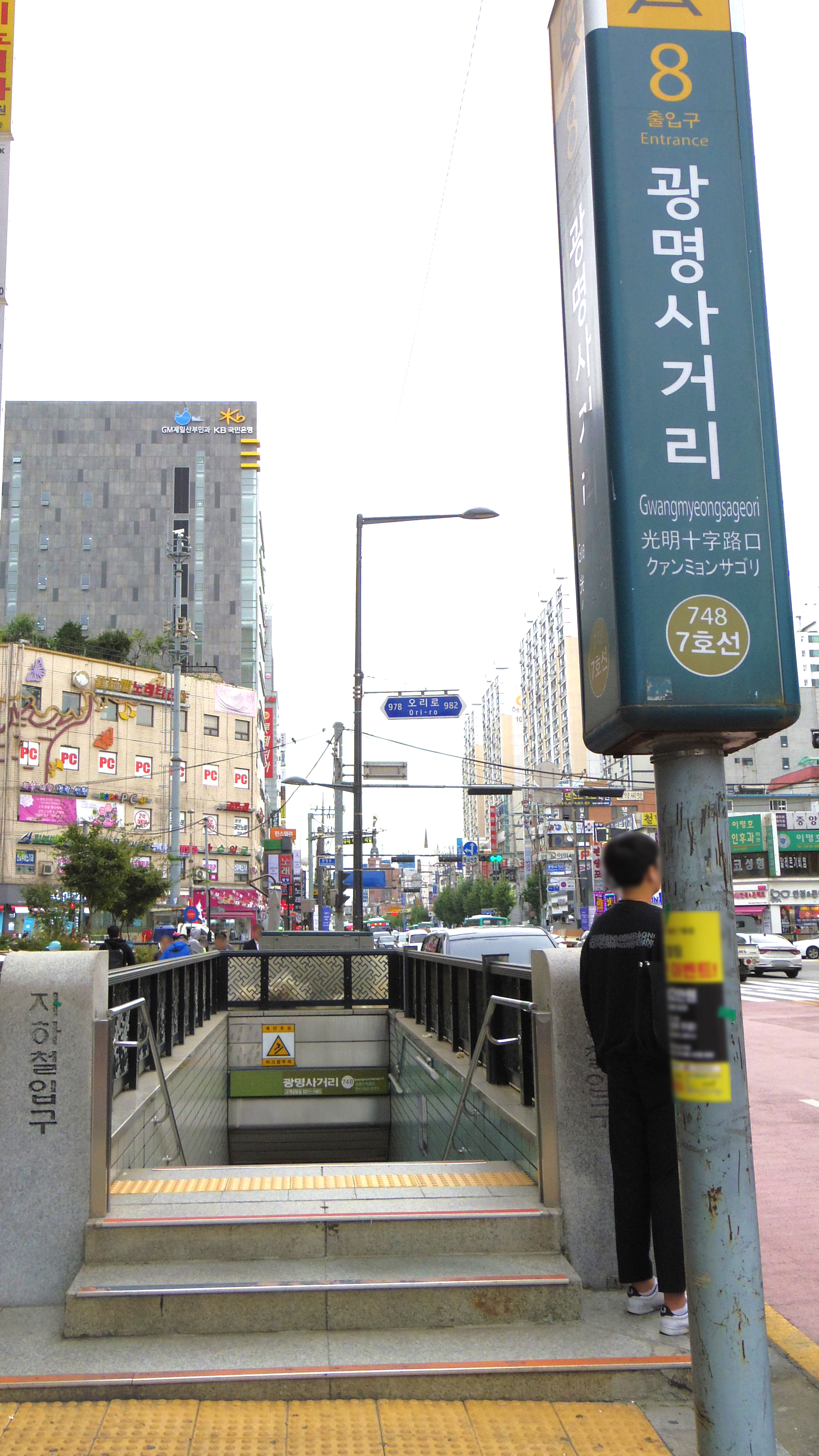 The no.8 entrance to Gwangmyeongsageori Station on the Seoul Subway Line 7 in Gwangmyeong city, Gyeonggi-do(province), Republic of Korea(South Korea)